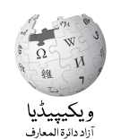 Wikipedia logo 2.0